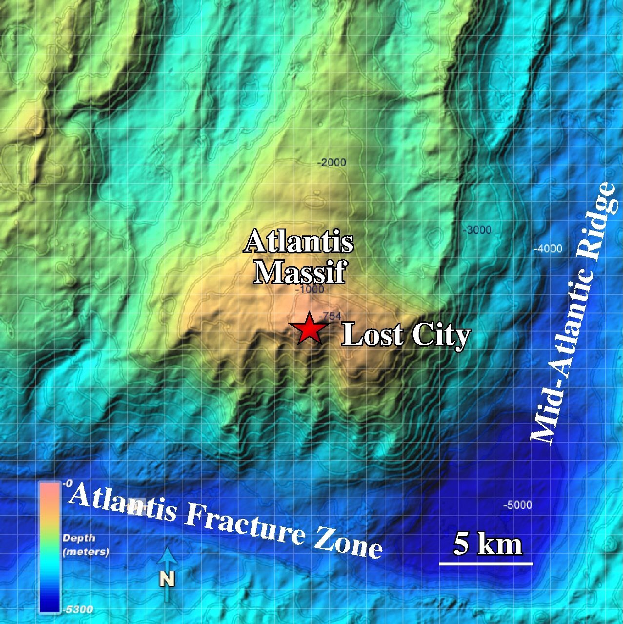 Location of Lost City diver operations.